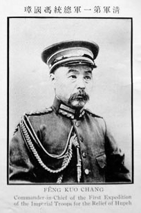 Feng Guozhang冯国璋, President of the Republic of China, died in 1919.